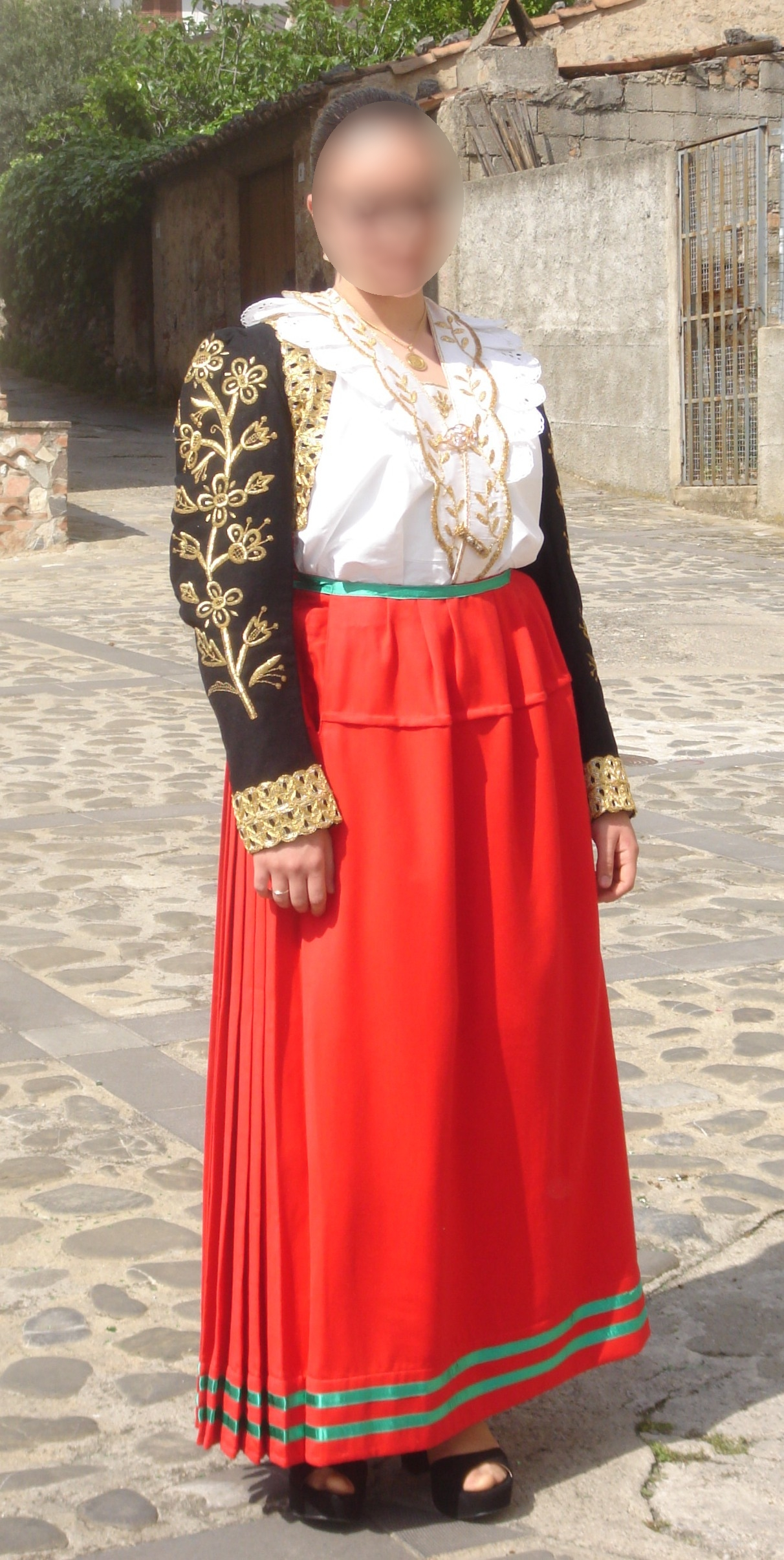 Arbëreshë costume of Ejanina, Frascineto, Calabria